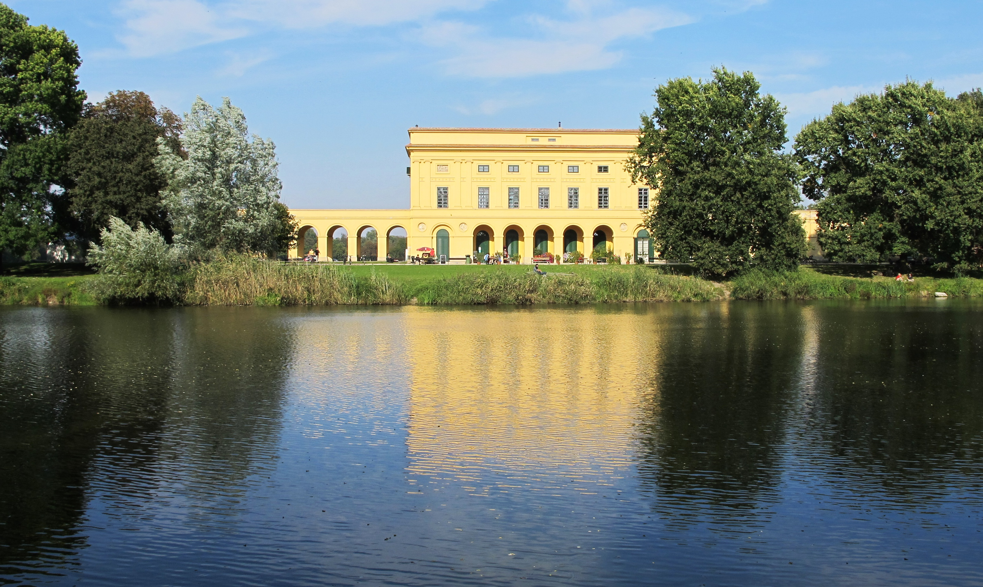 Pohansko chateau is one of the buildings of the Lednice-Valtice Area (in Břeclav District)